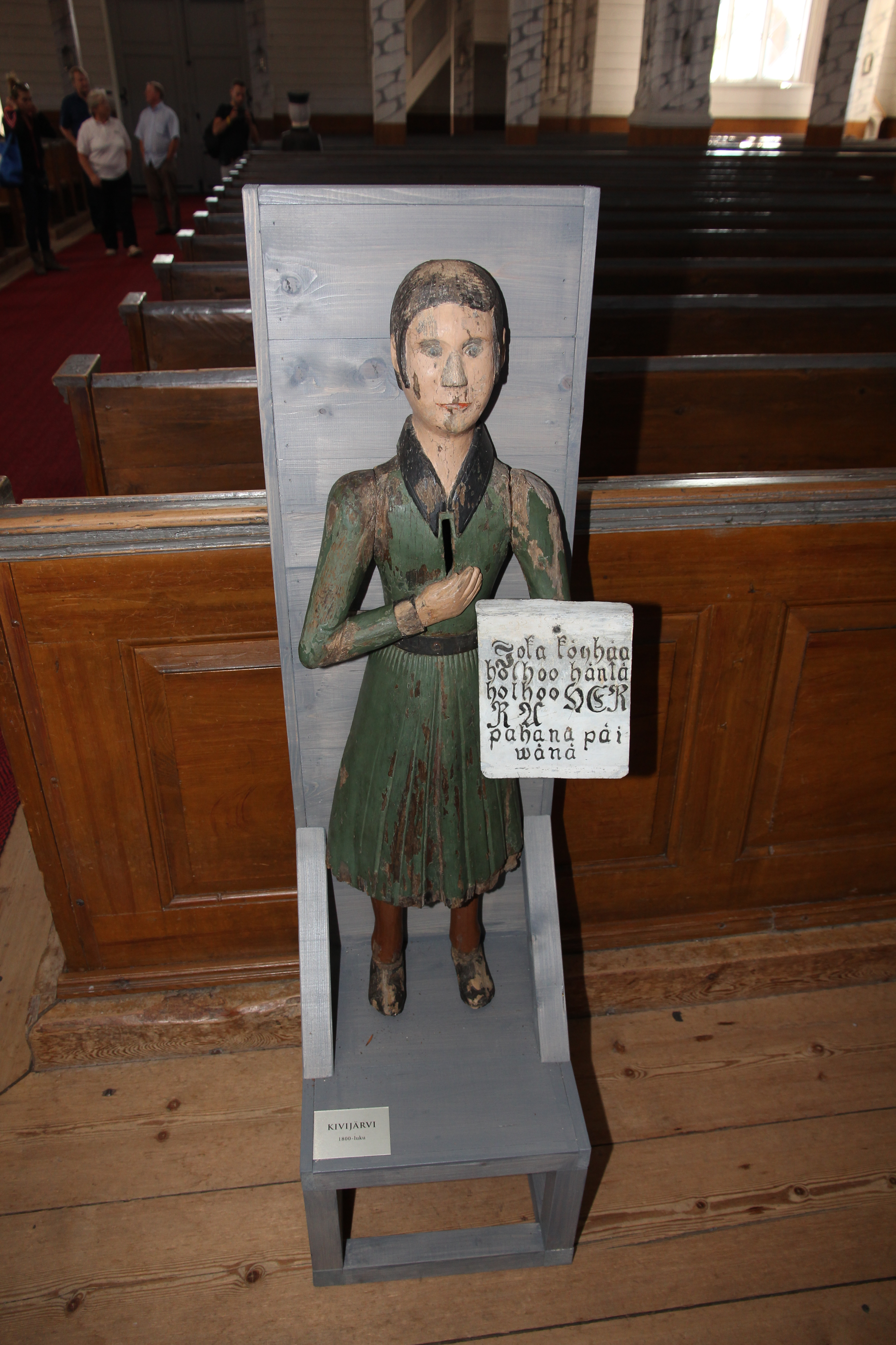 Poor man statue exhibition in Kerimäki church. Kivijärvi 19th century.